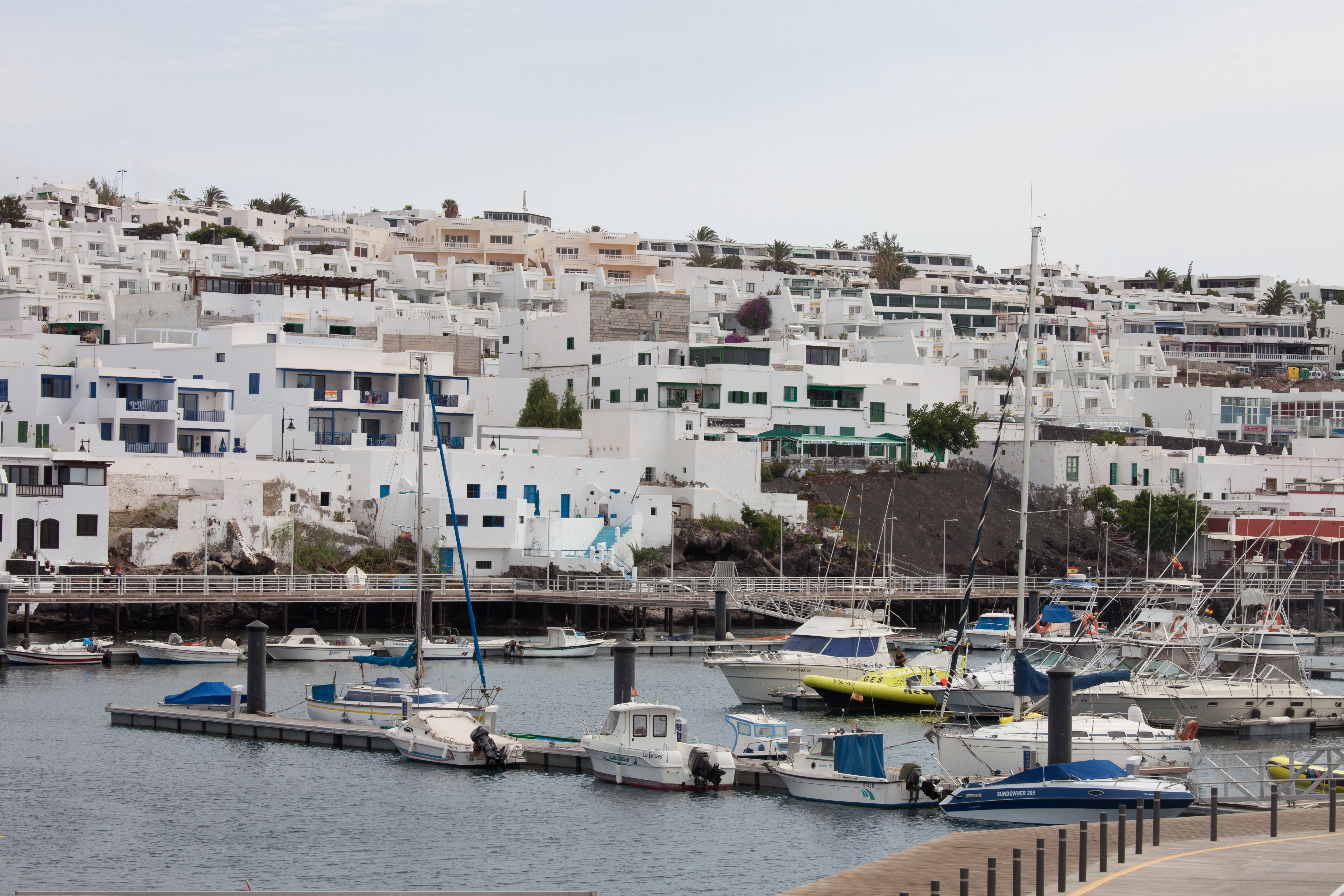 Port of Puerto del Carmen, Tías, Lanzarote, Spain